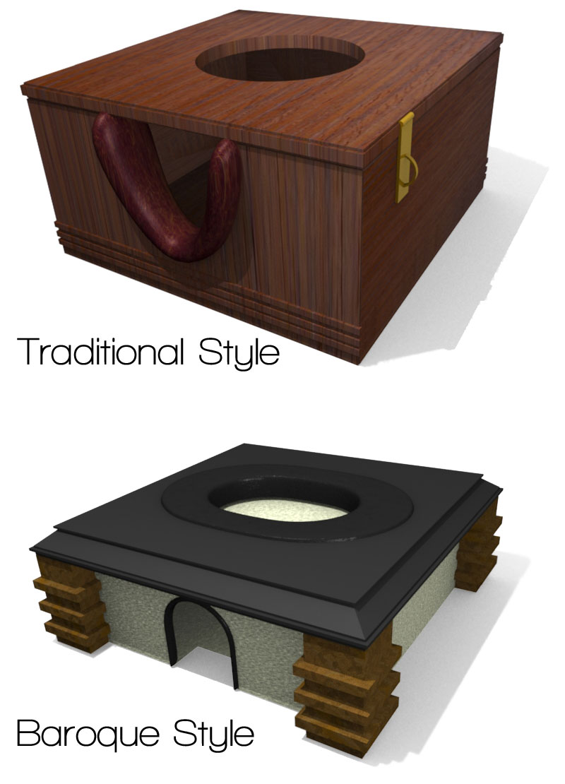 An artists rendition of a Smotherbox in two differing style. The top image depicting a more traditional style of the smotherbox (including a leather comfort strip for the bottom), while the lower image depicting a custom smotherbox which is made in a baroque style. Rendered from the 3d software application Blender